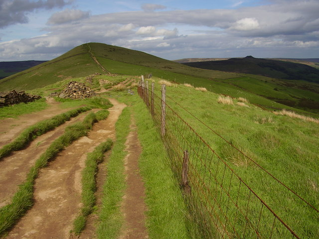 Lose Hill, or Ward's Piece. The land that Lose Hill stands on was presented to Mr GHB 'Bert' Ward in 1945 by the Ramblers' Association in appreciation of his outstanding contribution to rambling. He then presented the deeds to the National Trust. Winhill Pike is visible on on the horizon to the right.